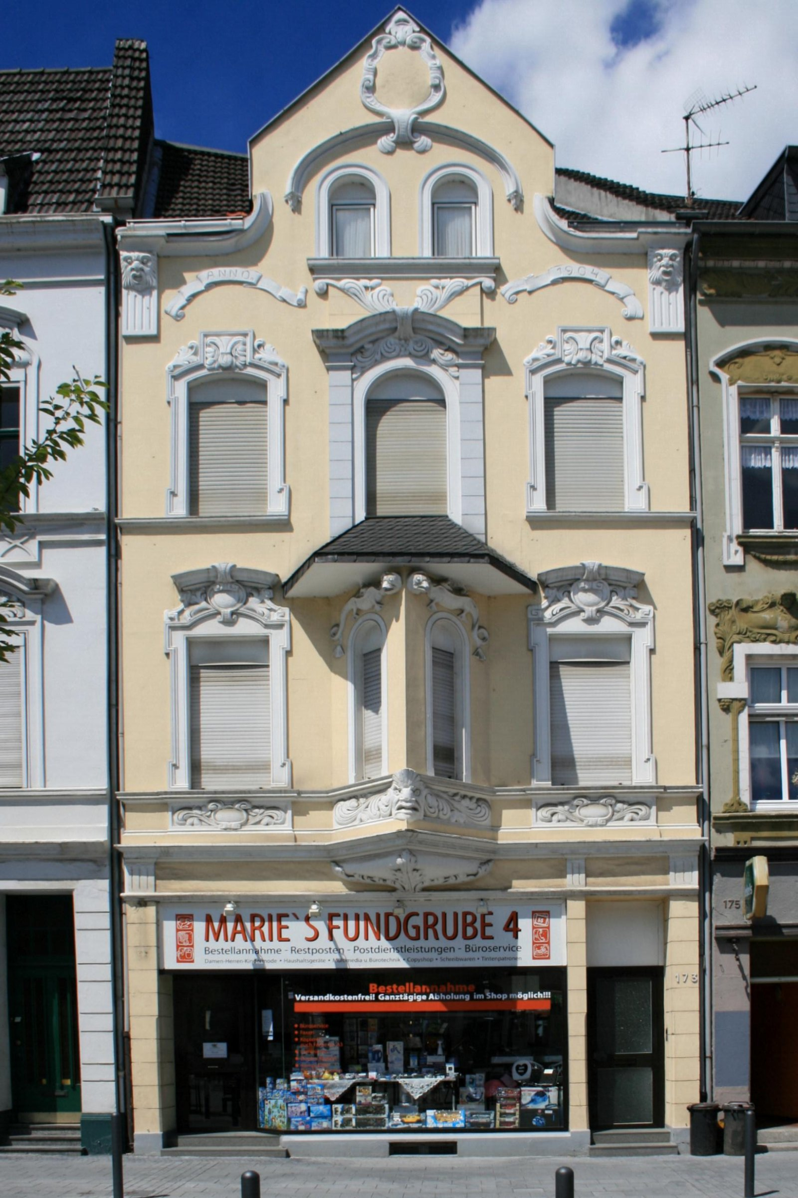 Cultural heritage monument No. R 077 in Mönchengladbach